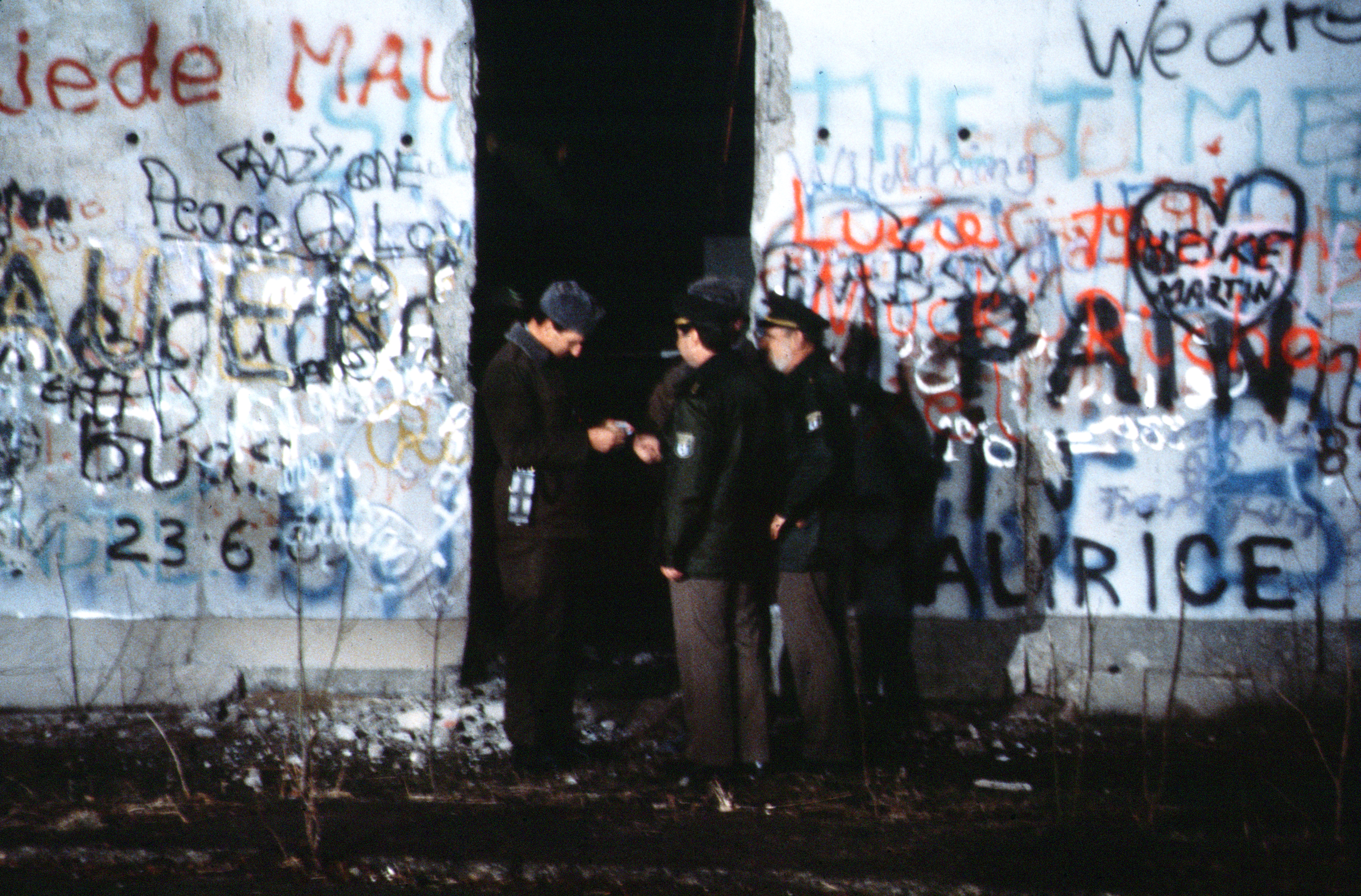 22/12/1989, 00:45, possibly near to the Brandenburg Gate